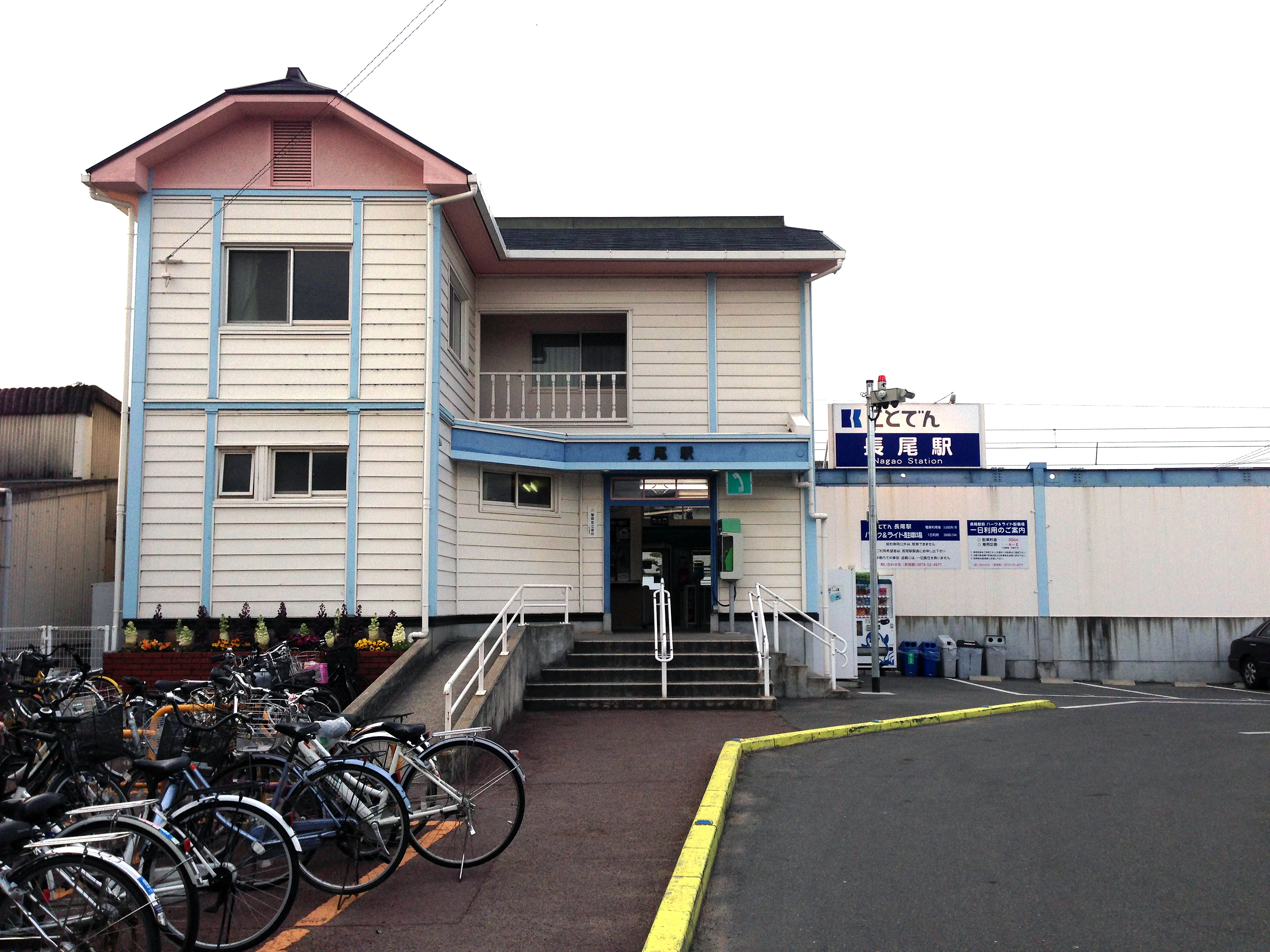 Takamatsu-Kotohira electric railroad Co., Ltd. Nagao-line Nagao station. (After installing security cameras.)